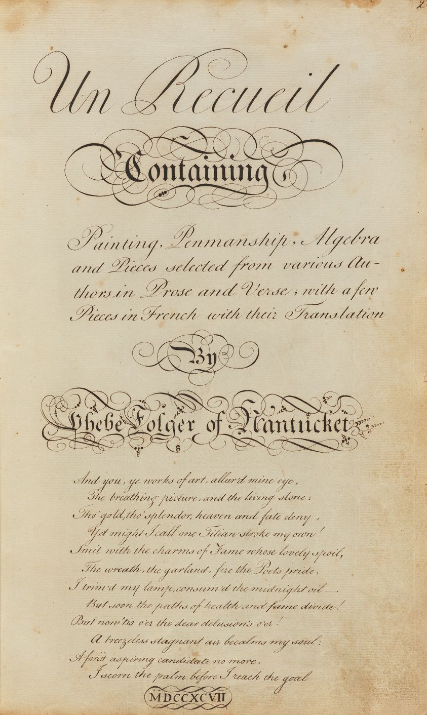 Commonplace book of Phebe Folger Coleman (1771-1857), which she titled Un Receuil: containing painting, penmanship, algebra and pieces selected from various authors in prose and verse: manuscript, 1797-1806. MS Typ 245, Houghton Library, Harvard University